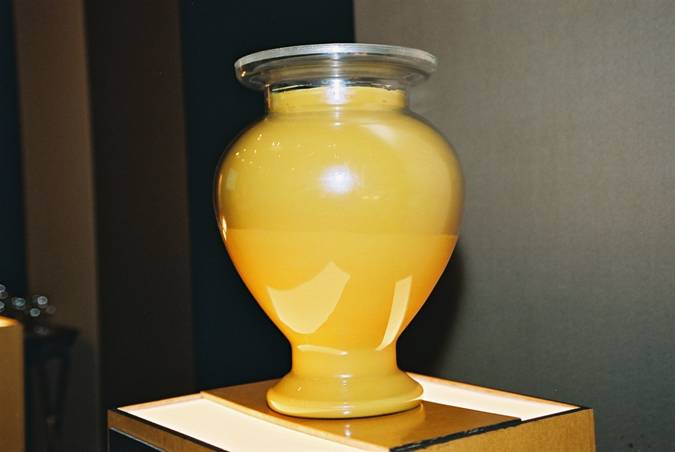 Parafine